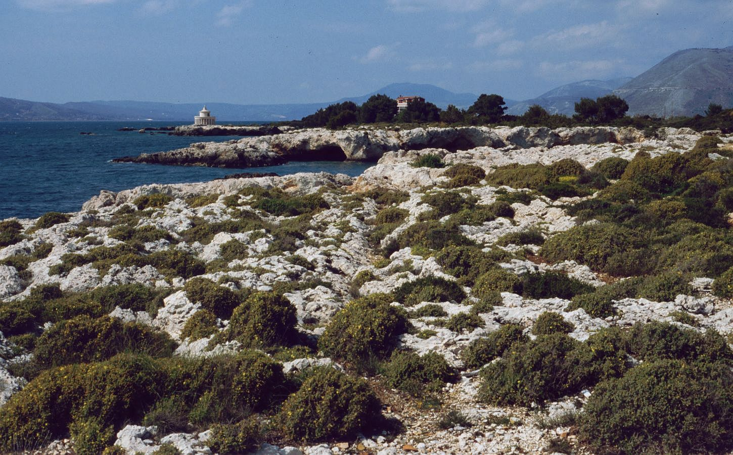 Hypericum aegypticum, Johanniskrautgewächse (Hypericaceae), Habitat – Griechenland/Ελλάδα/Greece: Akra Ag. Theodóri/Άκρα Άγ. Θεόδωροι NW Argostoli/Αργοστόλι (Kefallinia/Κεφαλληνία)